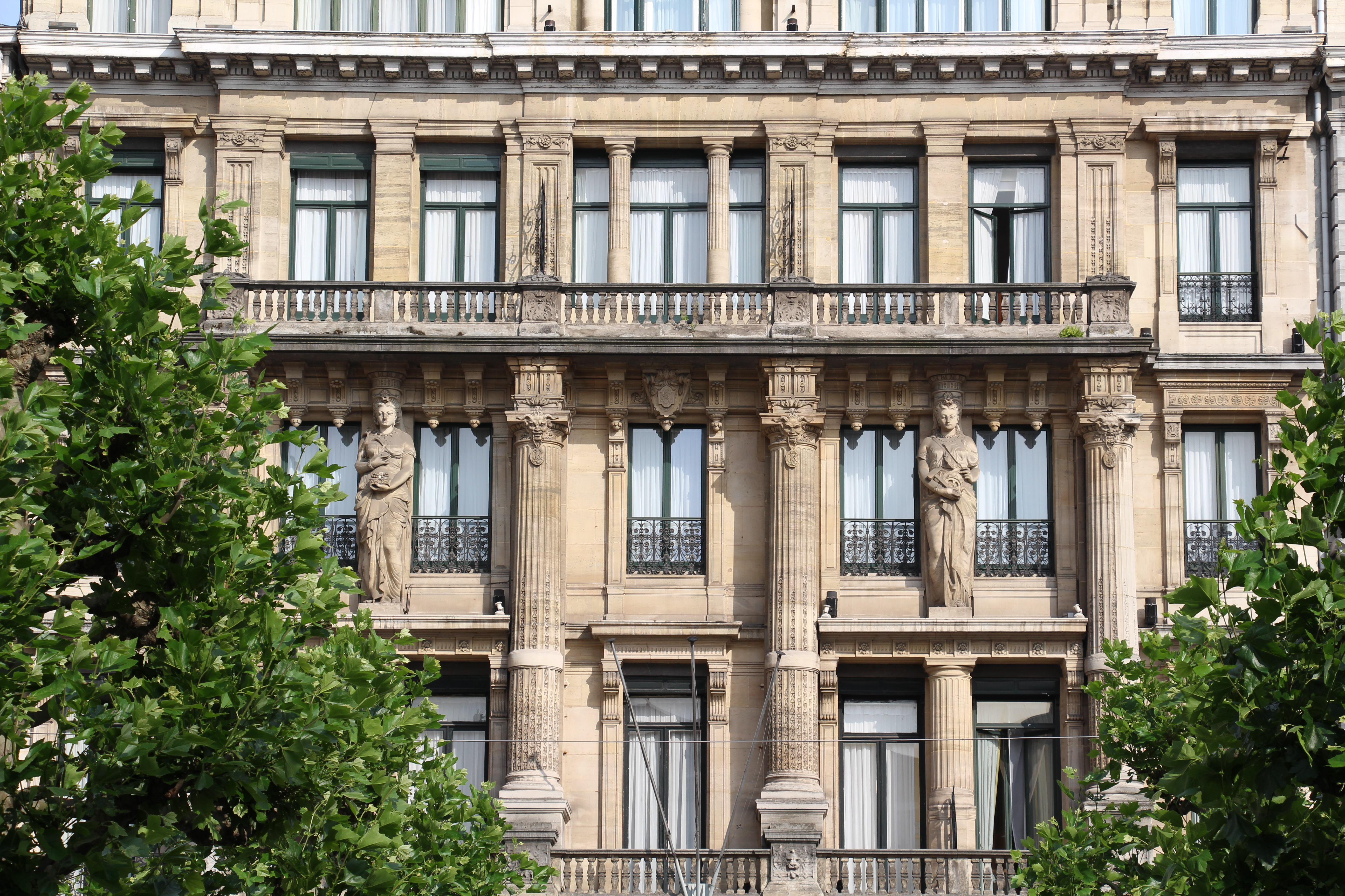 Marais-Jacqmain. Place De Brouckère Part of the Hôtel Métropole built at the end of the 19th-Century.